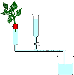 Diagram of a potometer.